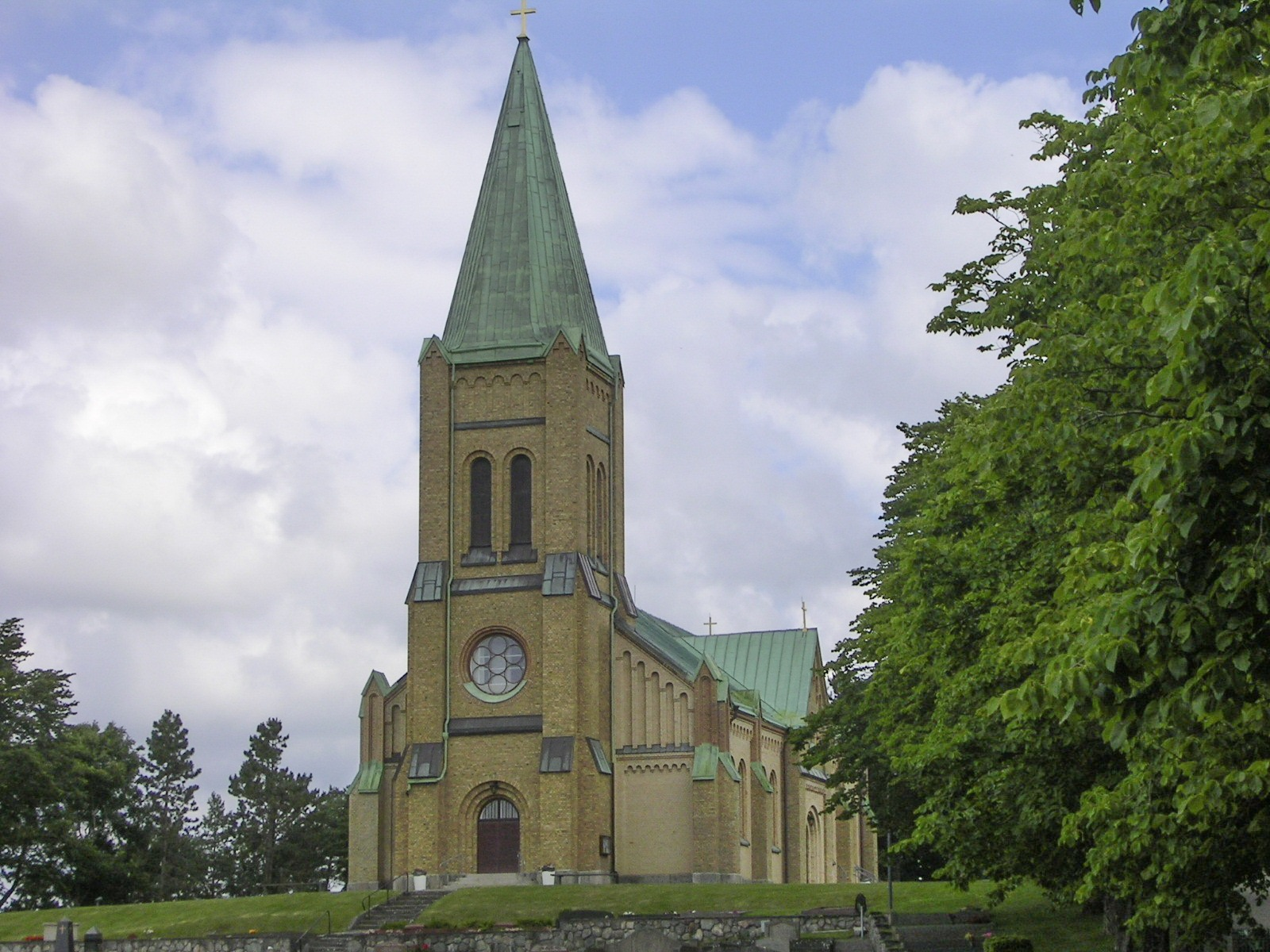 Church of Ölmevalla, Halland county, Sweden